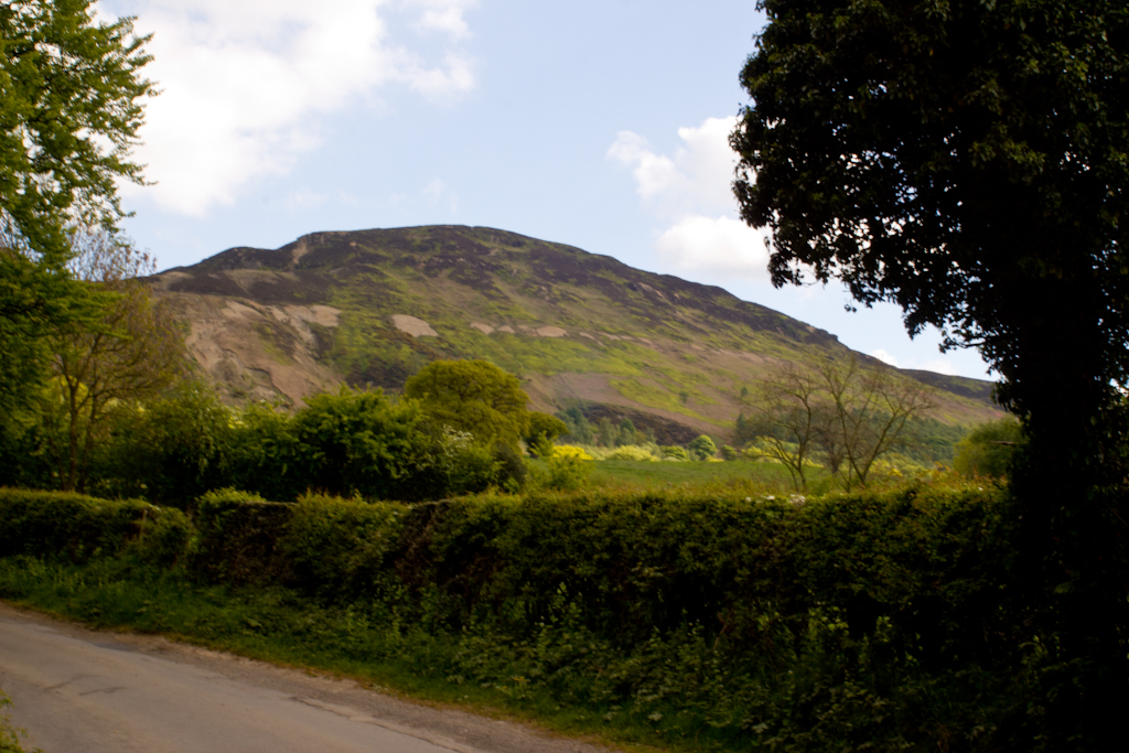 Carlton Bank seen from Alum House Lane, Carlton-in-Cleveland.